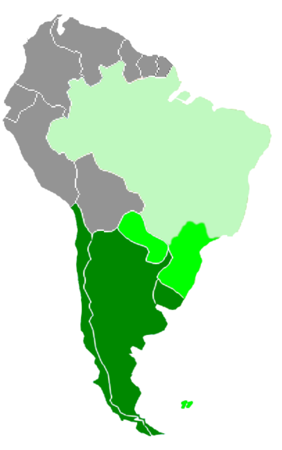 Southern cone map cono sur